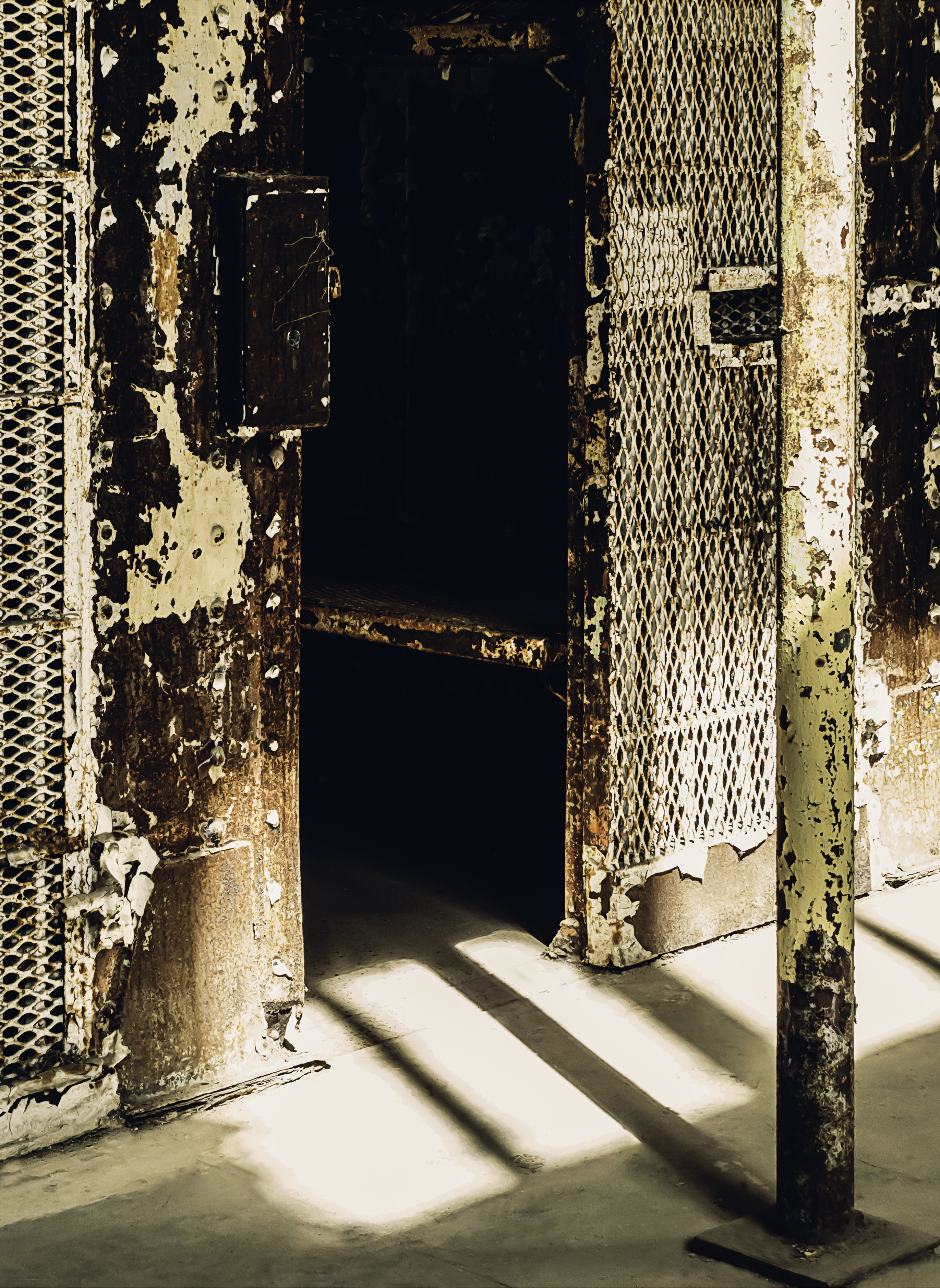 Ohio State Reformatory, Olivesburg Rd. Mansfield